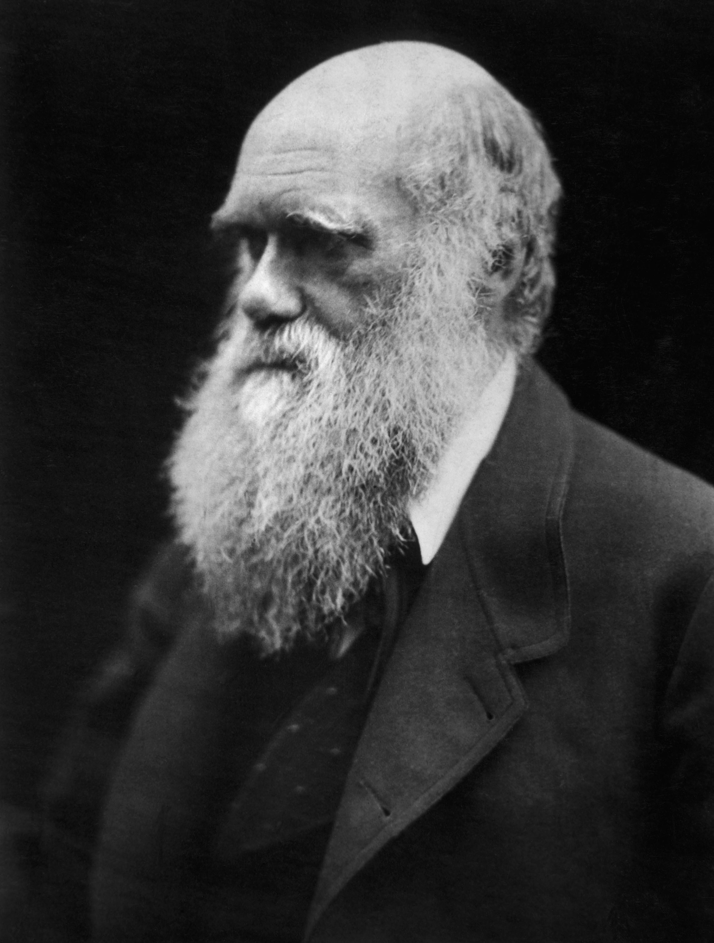 A photograph of Charles Darwin by Julia Margaret Cameron, from 1868